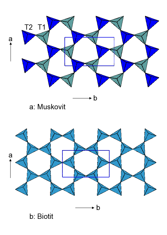 Sheet of corner linked SiO4-tetrahedra of dioctahedral mica (muscovite) and dioctahedral mica (annite). View along the c-axis on the a-c-plane.